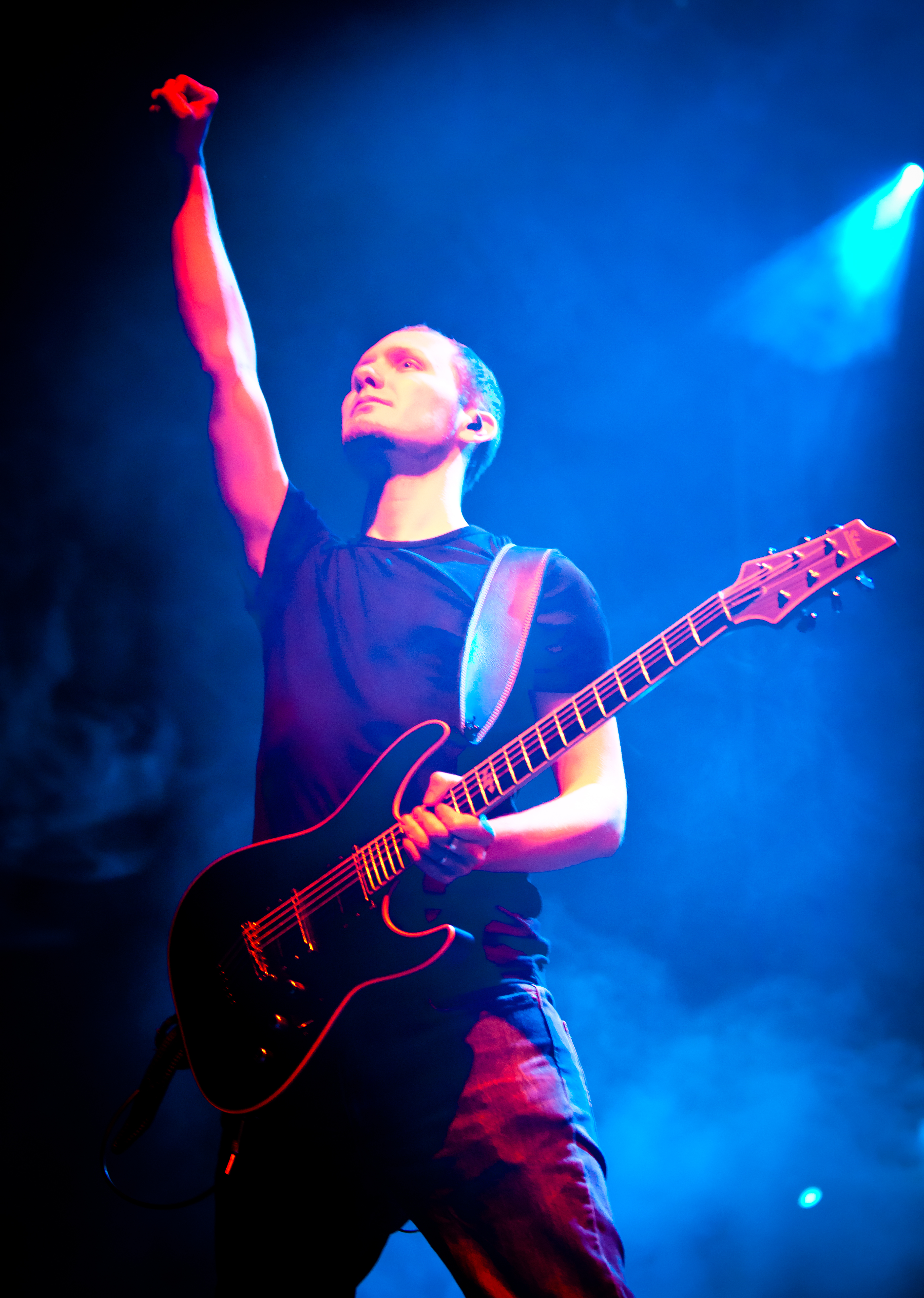 Ivo Henzi of Eluveitie live at the Wave Gotik Treffen 2011